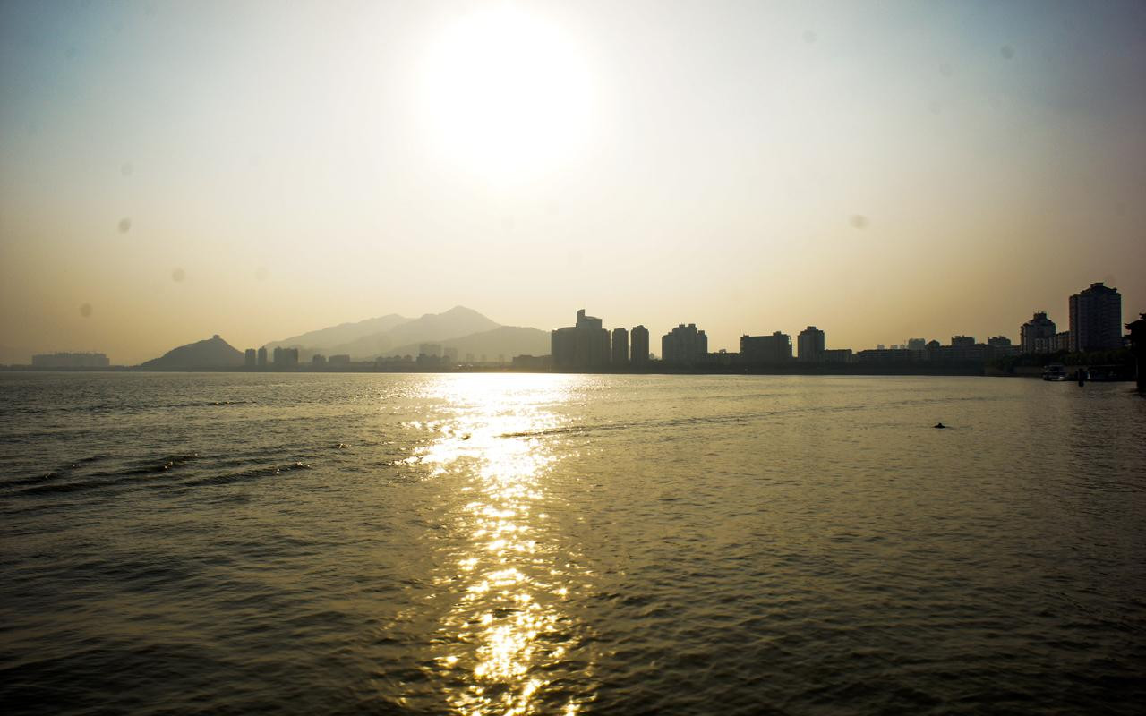 Fuchun river cross Fuyang